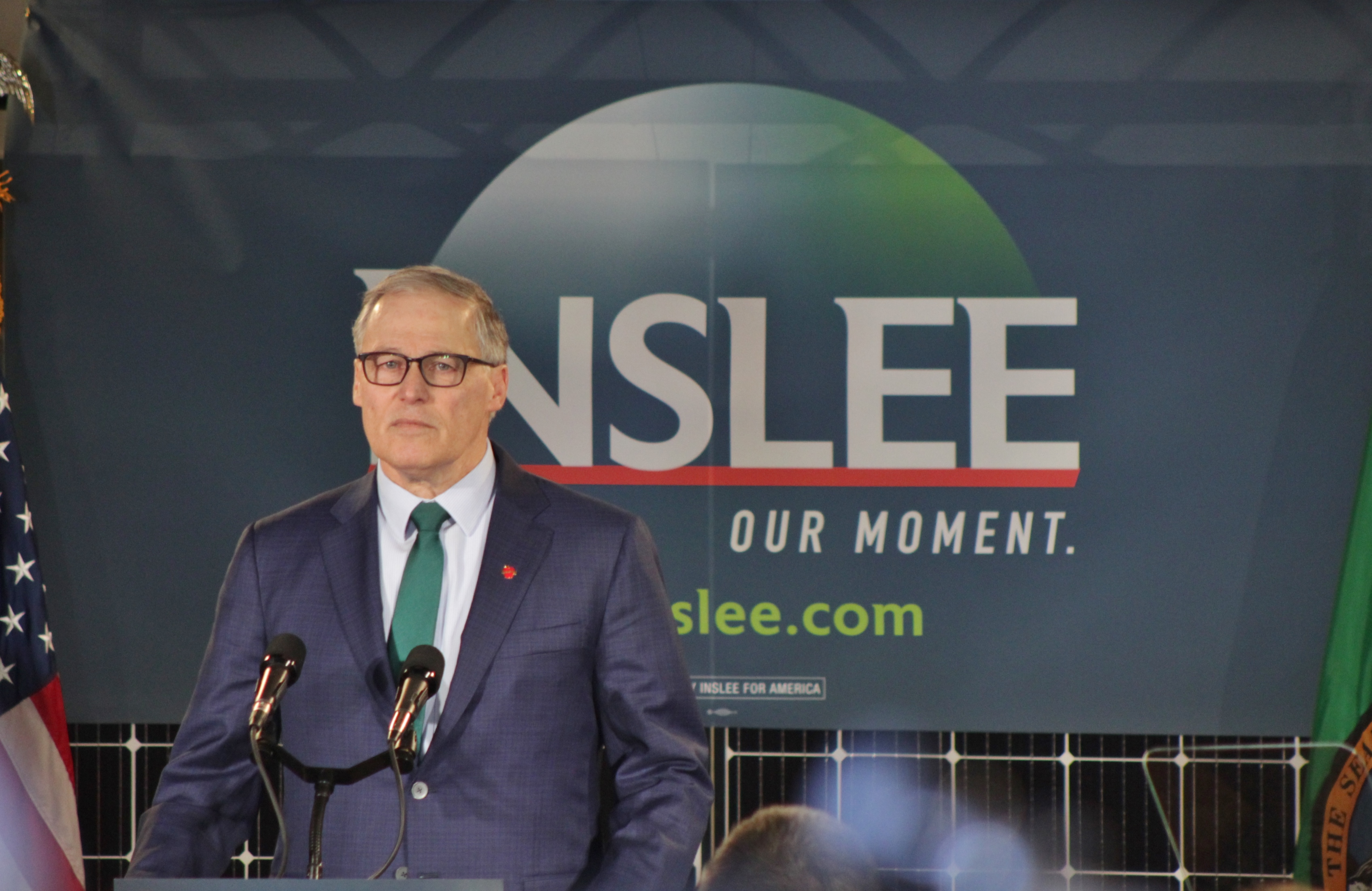 Jay Inslee, Governor of Washington, announces his presidential campaign for the 2020 election. The announcement was held at a solar panel warehouse in the Mount Baker neighborhood of Seattle, Washington.